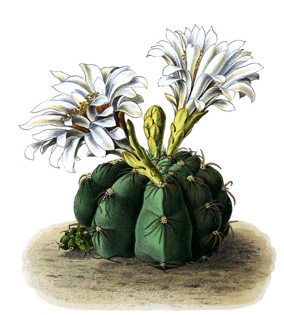 Gymnocalycium denudatum